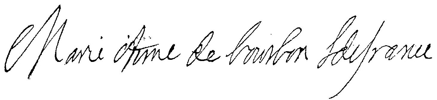 Signature of Marie Anne de Bourbon, Légitimée de France (eldest illegitimate daughter of Louis XIV of France and Mademoiselle de La Vallière)